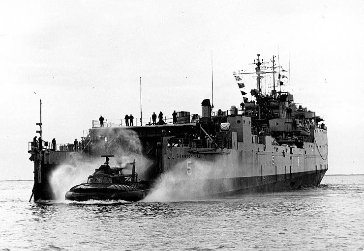 A Patrol Air Cushion Vehicle (PACV) leaves USS Gunston Hall (LSD-5)'s well deck, probably in the vicinity of San Diego, California (USA). The PACVs had seen experimental service in South Vietnam's Mekong River Delta.